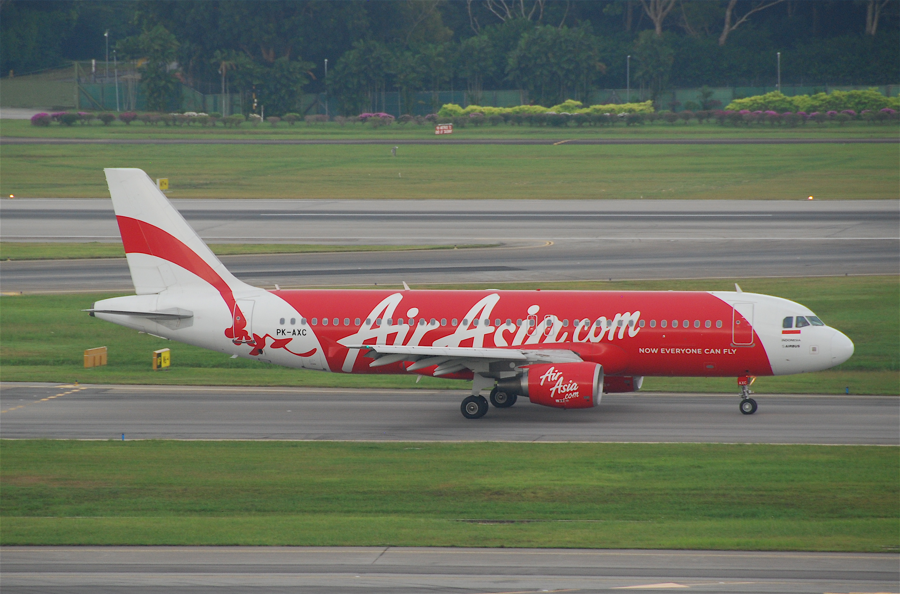 An Airbus A320-216 aircraft (PK-AXC) of Indonesia AirAsia at Singapore Changi Airport on 7 August 2011.